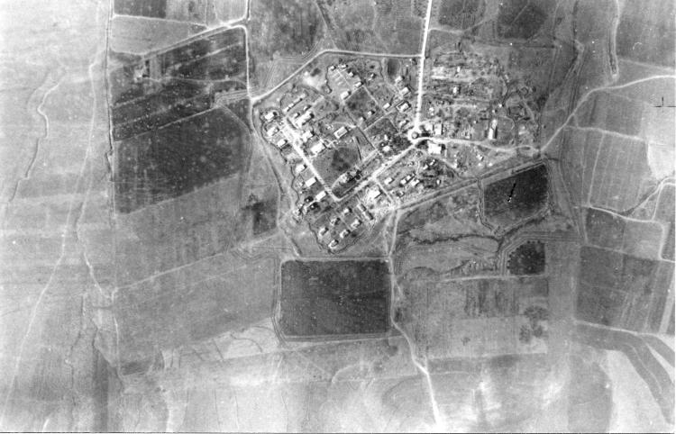 Aerial photo of Negba, 1948.